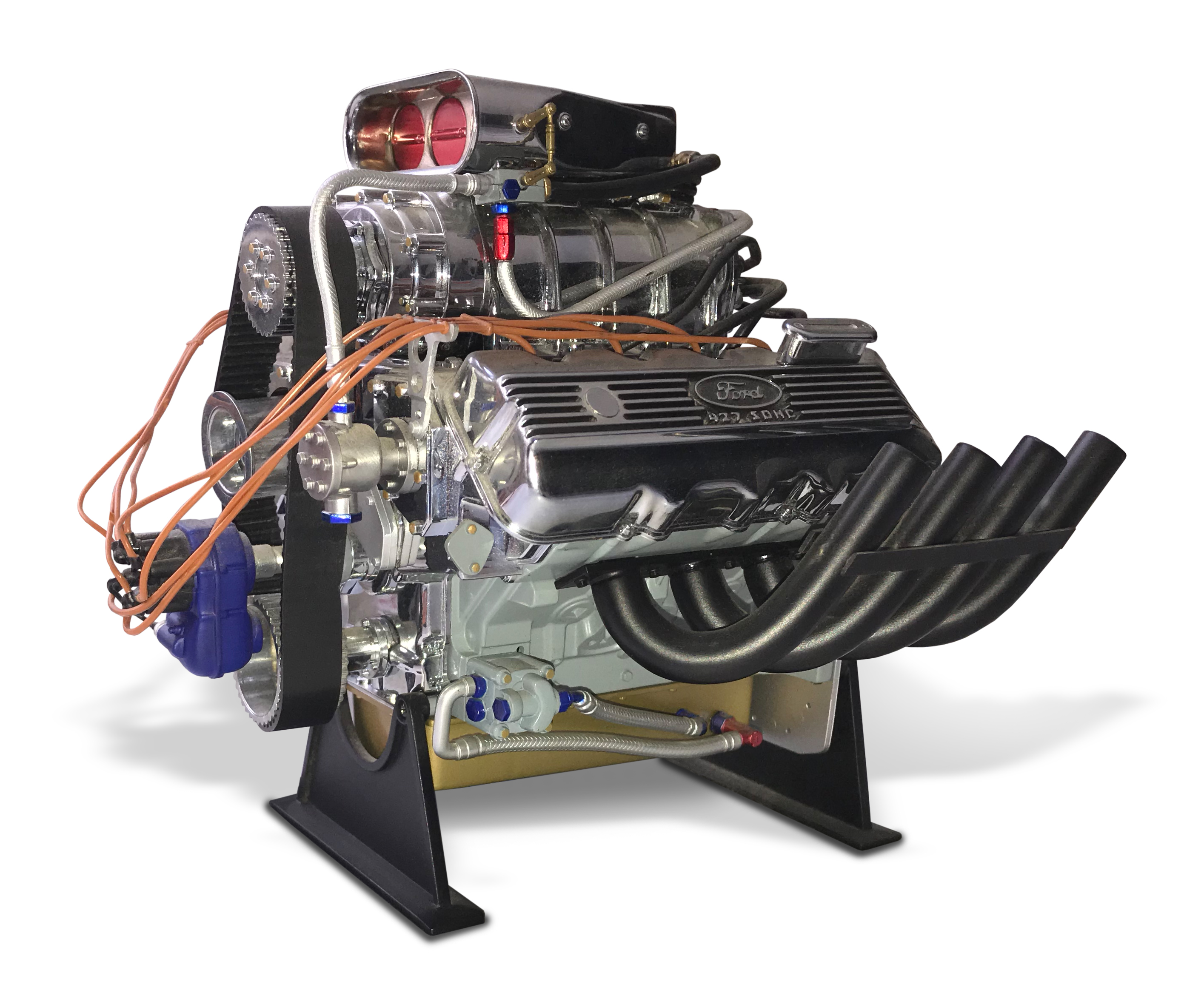 Display model of a top fuel engine, based on the Ford 427 SOHC. This engine was one of the most widely used TF engines in the front engine dragsters of the 1960 / 70s